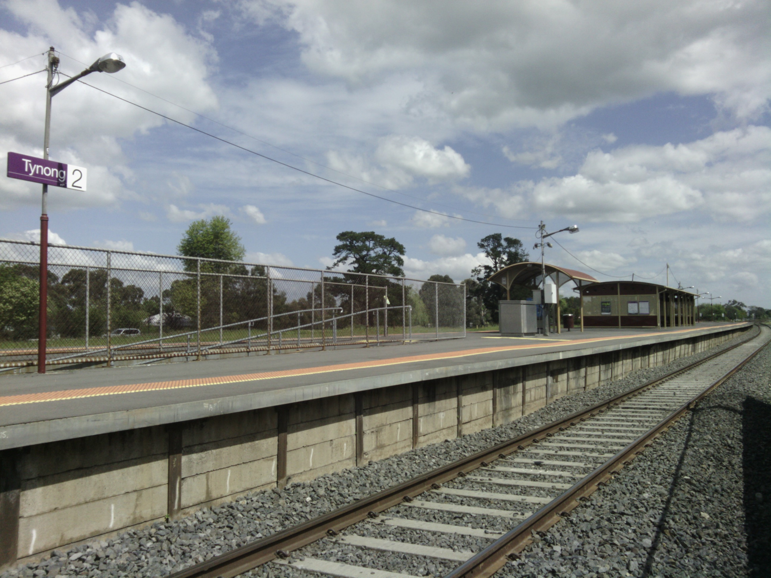 Photo of the platform at Tynong, Victoria.